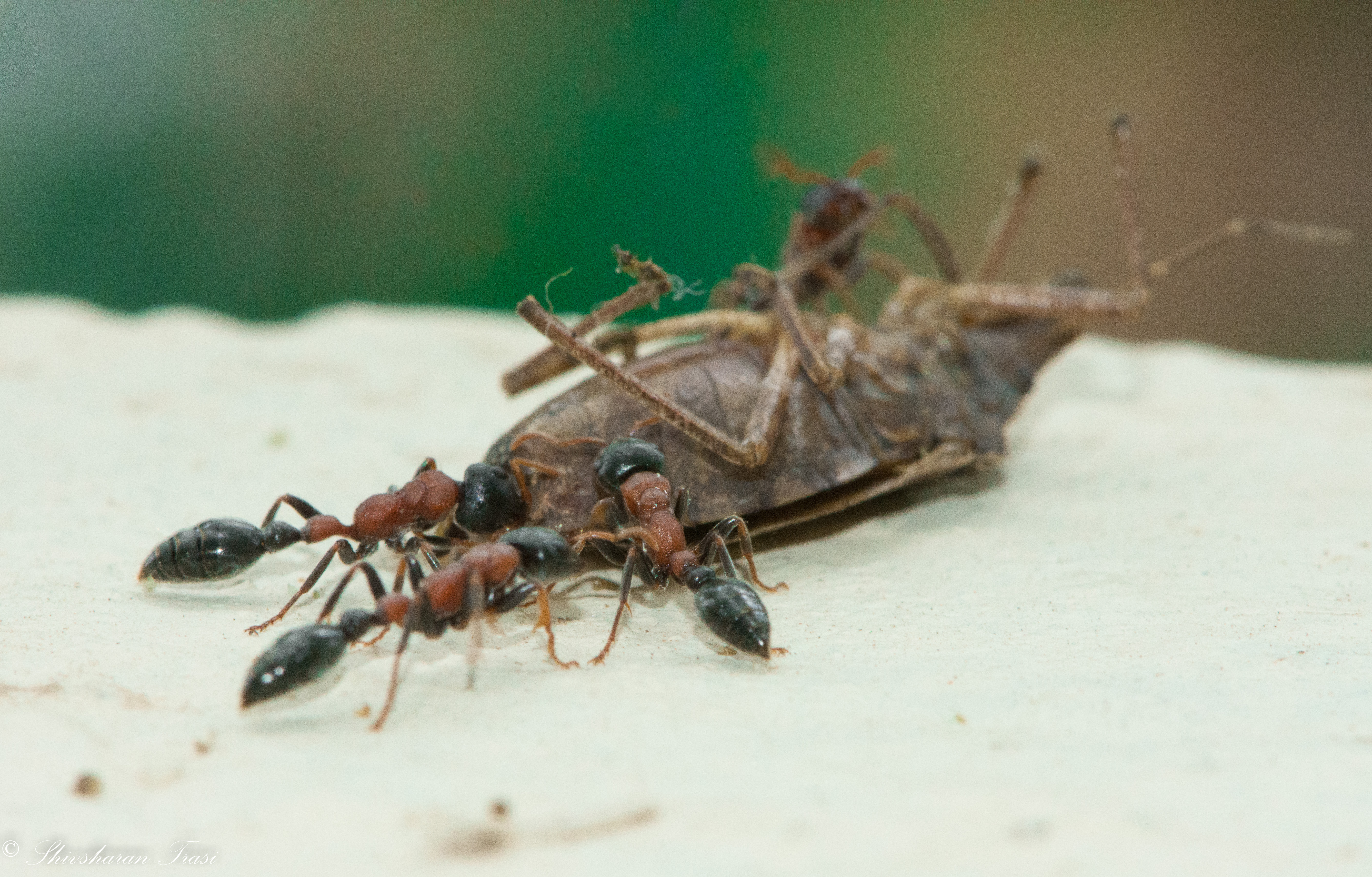 Although they hunt small insects they will feed on larger prey